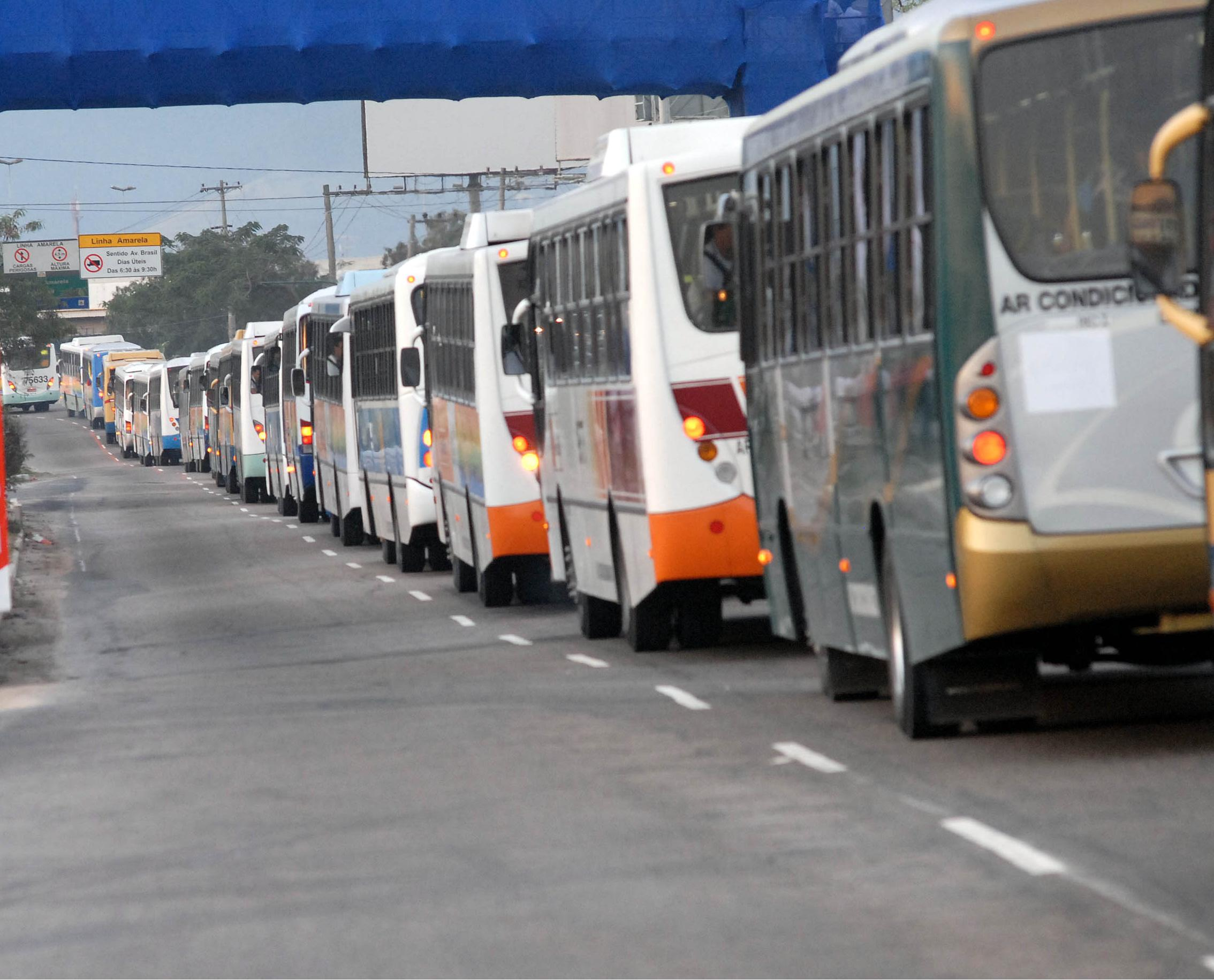 Buses with athletes - Rio 2007 Opening Ceremony